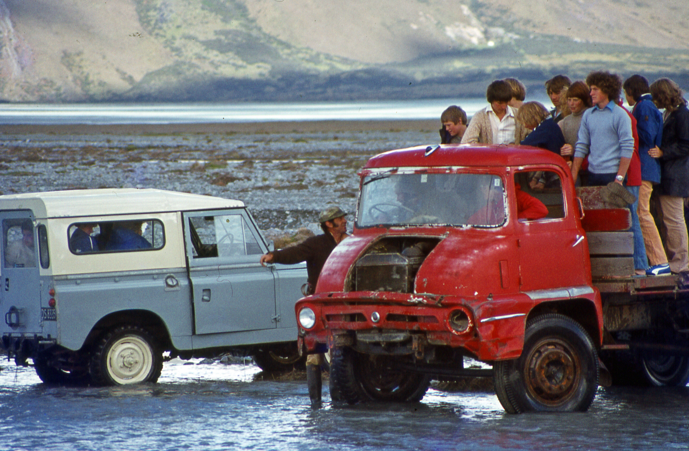 Gary Joll, the last New Zealand owner of Lilybank, stands by the truck. Red truck is a Thames Trader.